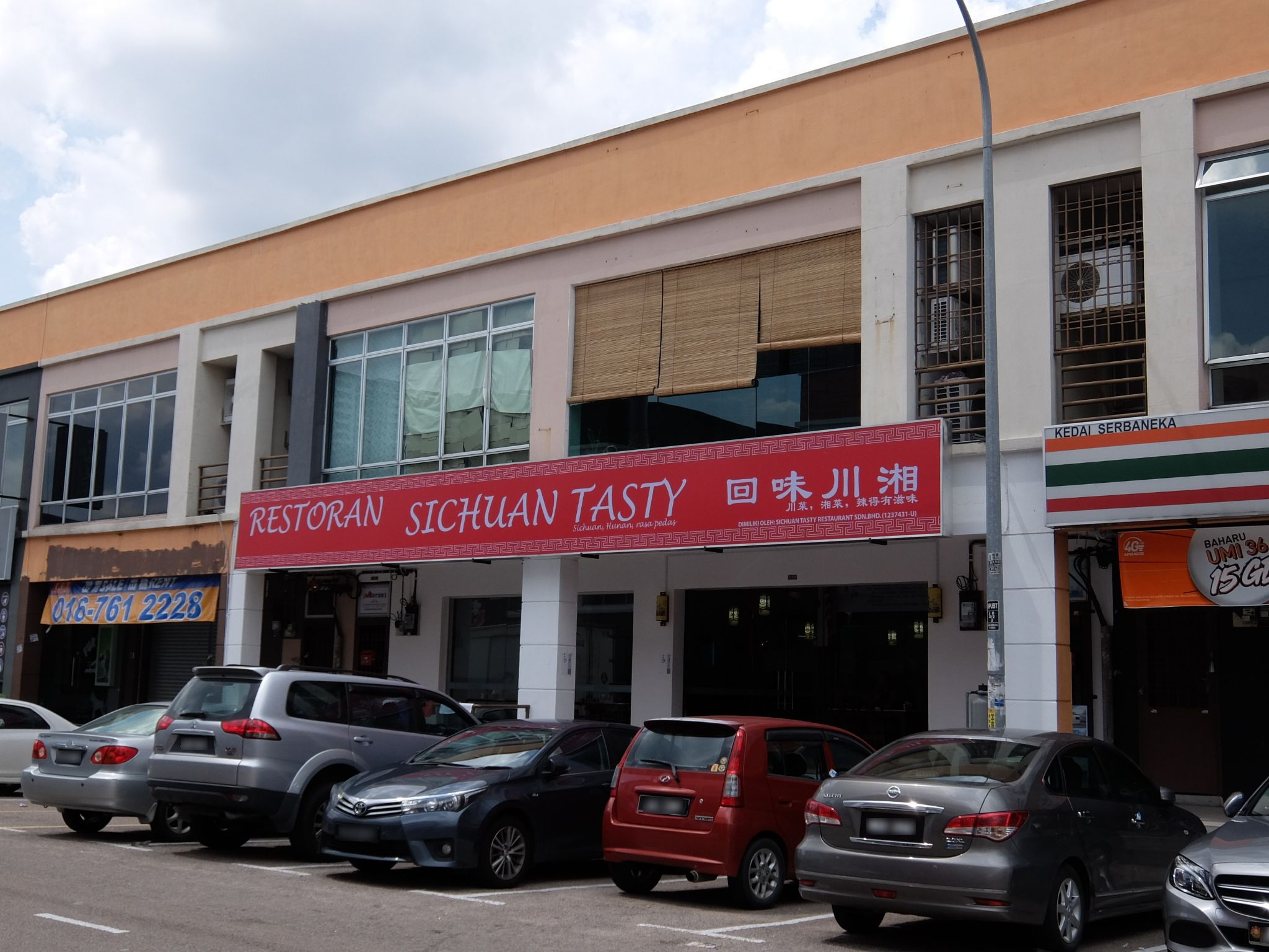 Sichuan Tasty Restaurant, Taman Nusa Bestari, Skudai, Iskandar Puteri, Johor, Malaysia